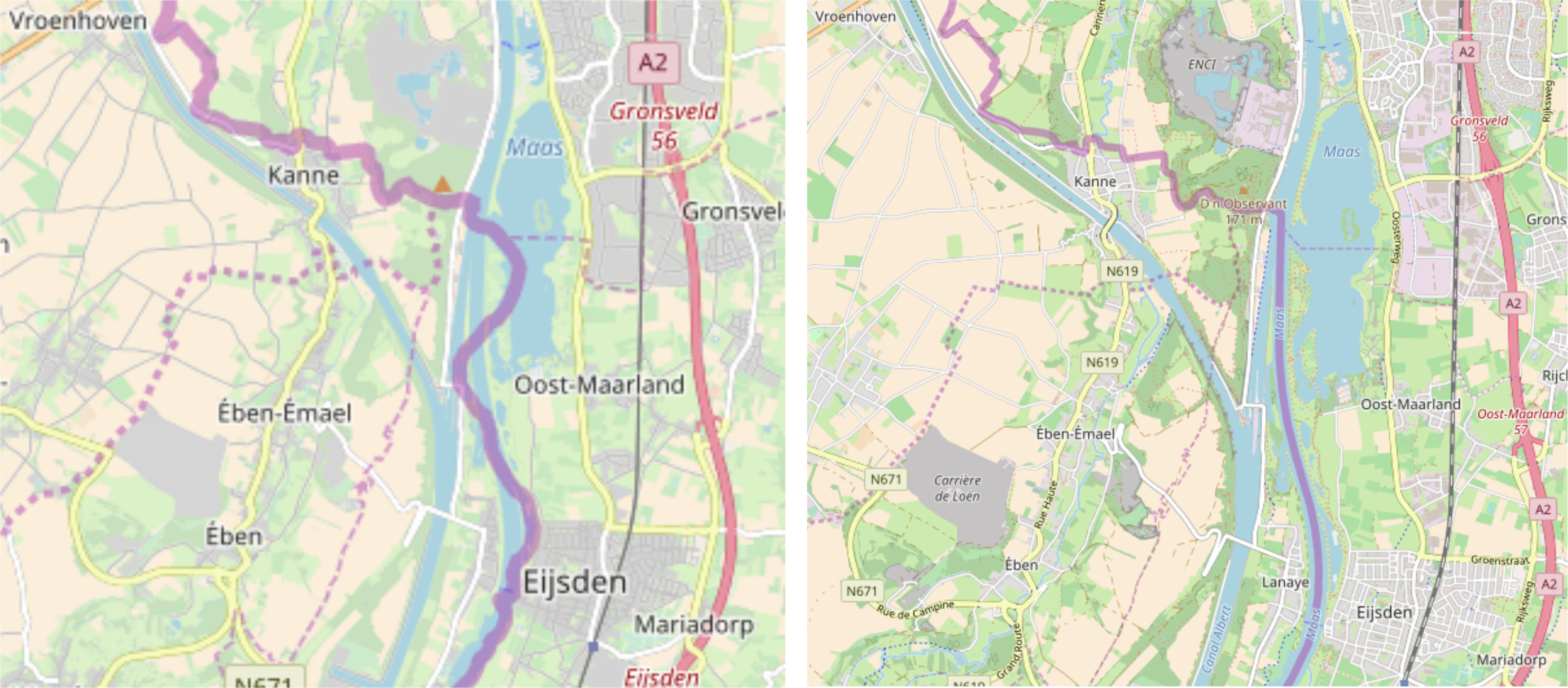 Change in border between Belgium and The Netherlands